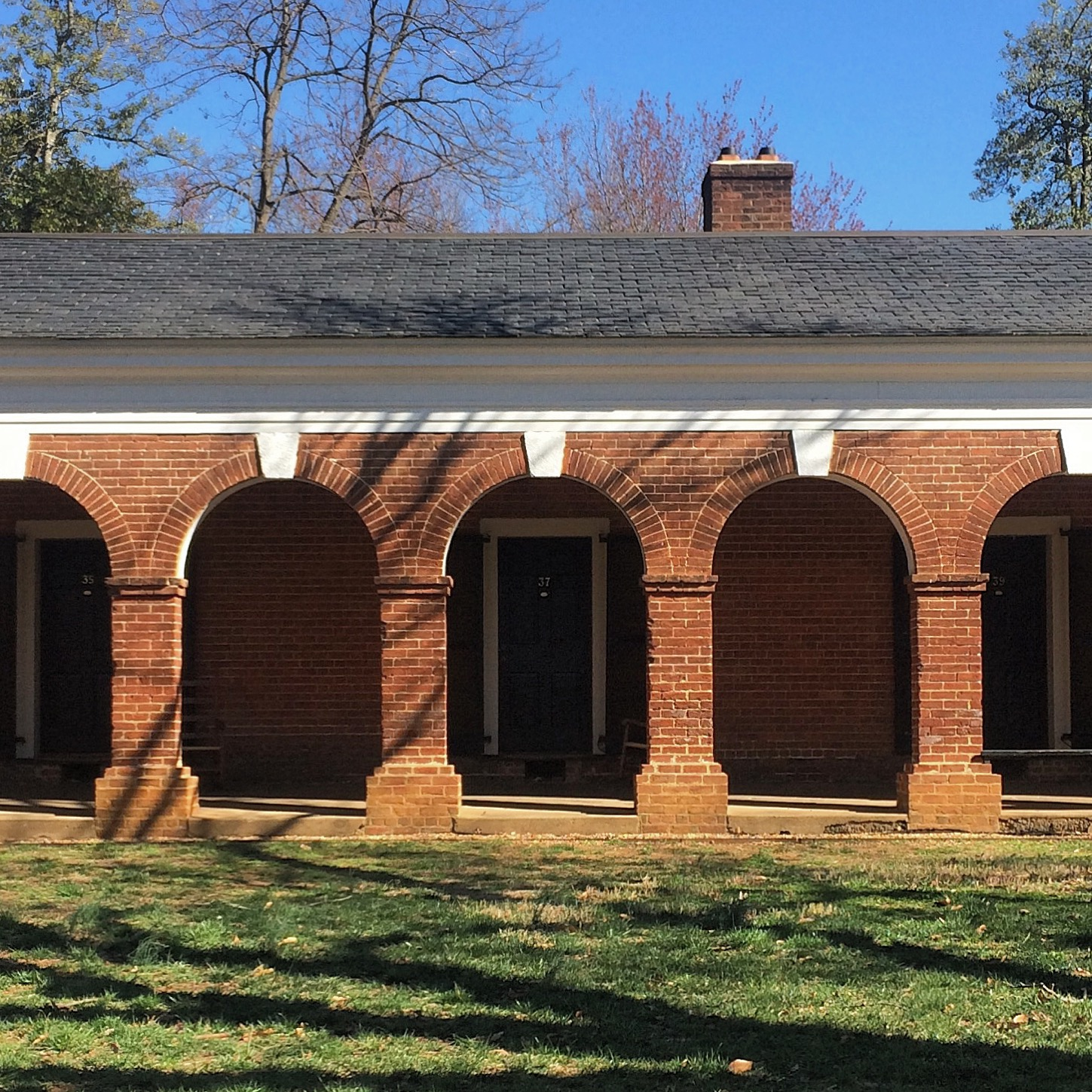 A brick arcade on the West Range.